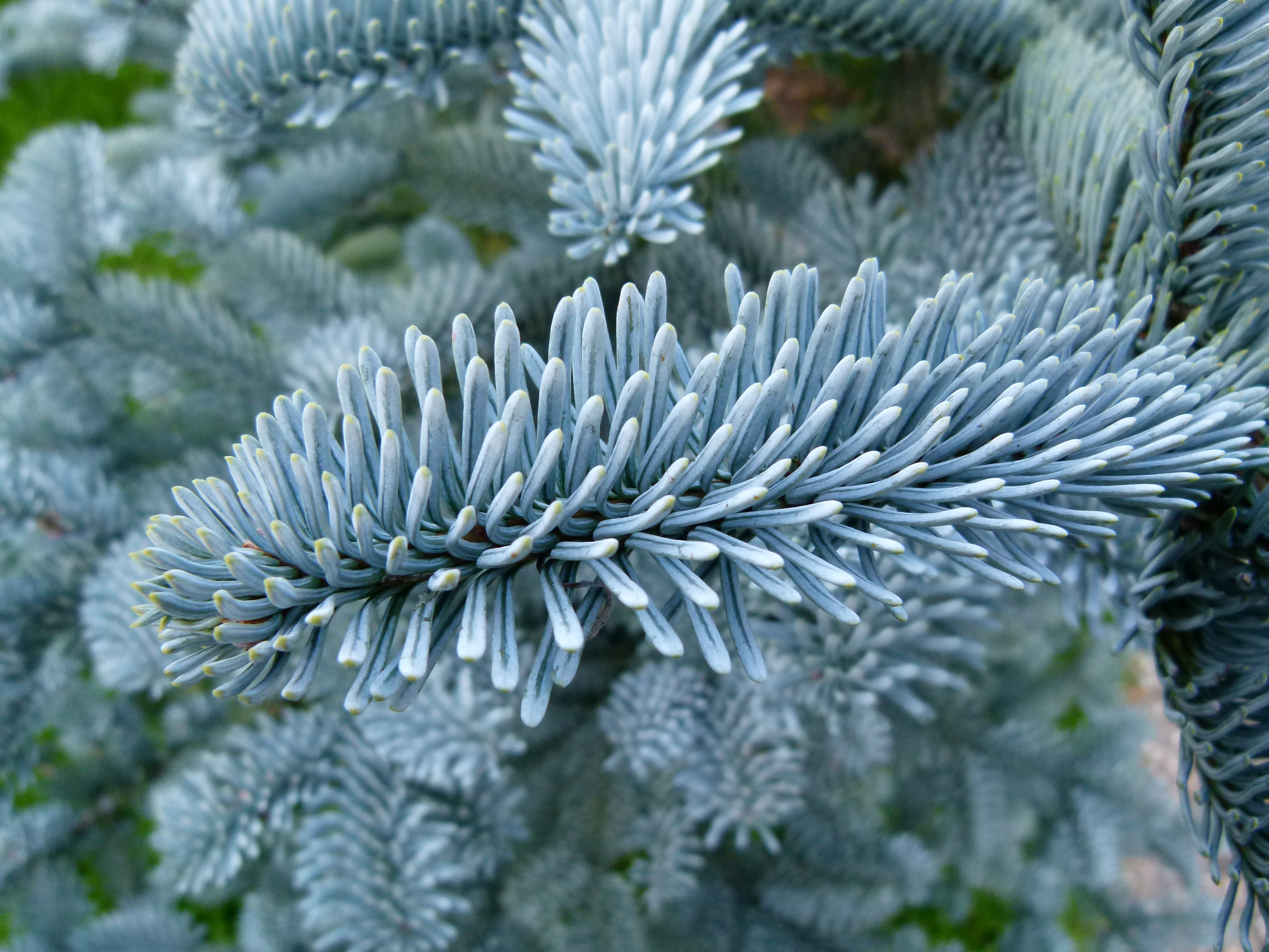 Branch of a blue fir (Abies procera 'Glauca').